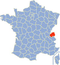 Map of France with highlighted #74 department.